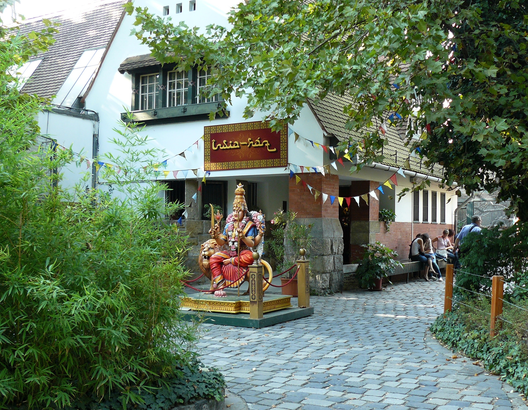 Just like in the title.